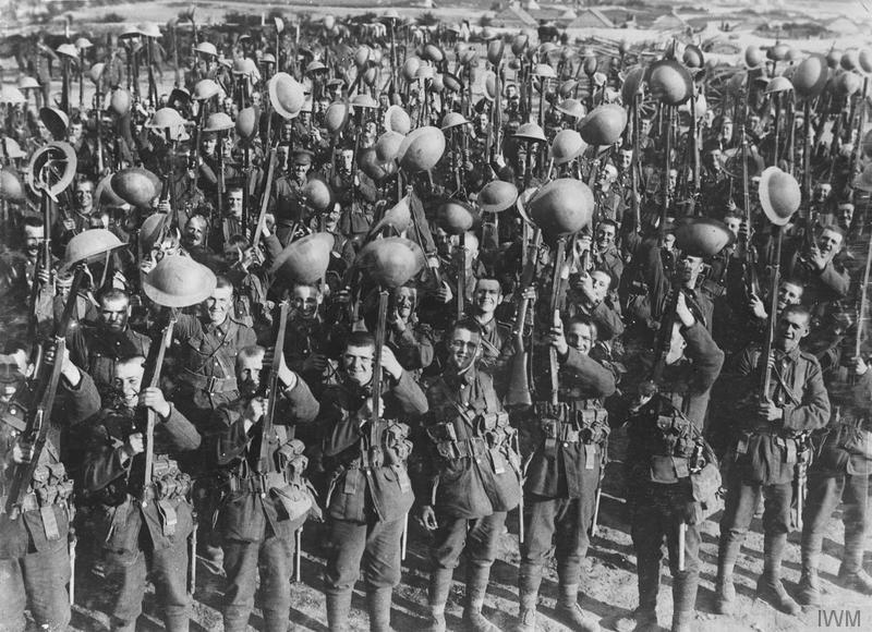 The British Army on the Western Front, 1914-1918. Men of the 7th Pioneer Battalion Durham Light Infantry parading for the trenches; Reninghelst, near Ypres, 29th April 1916.